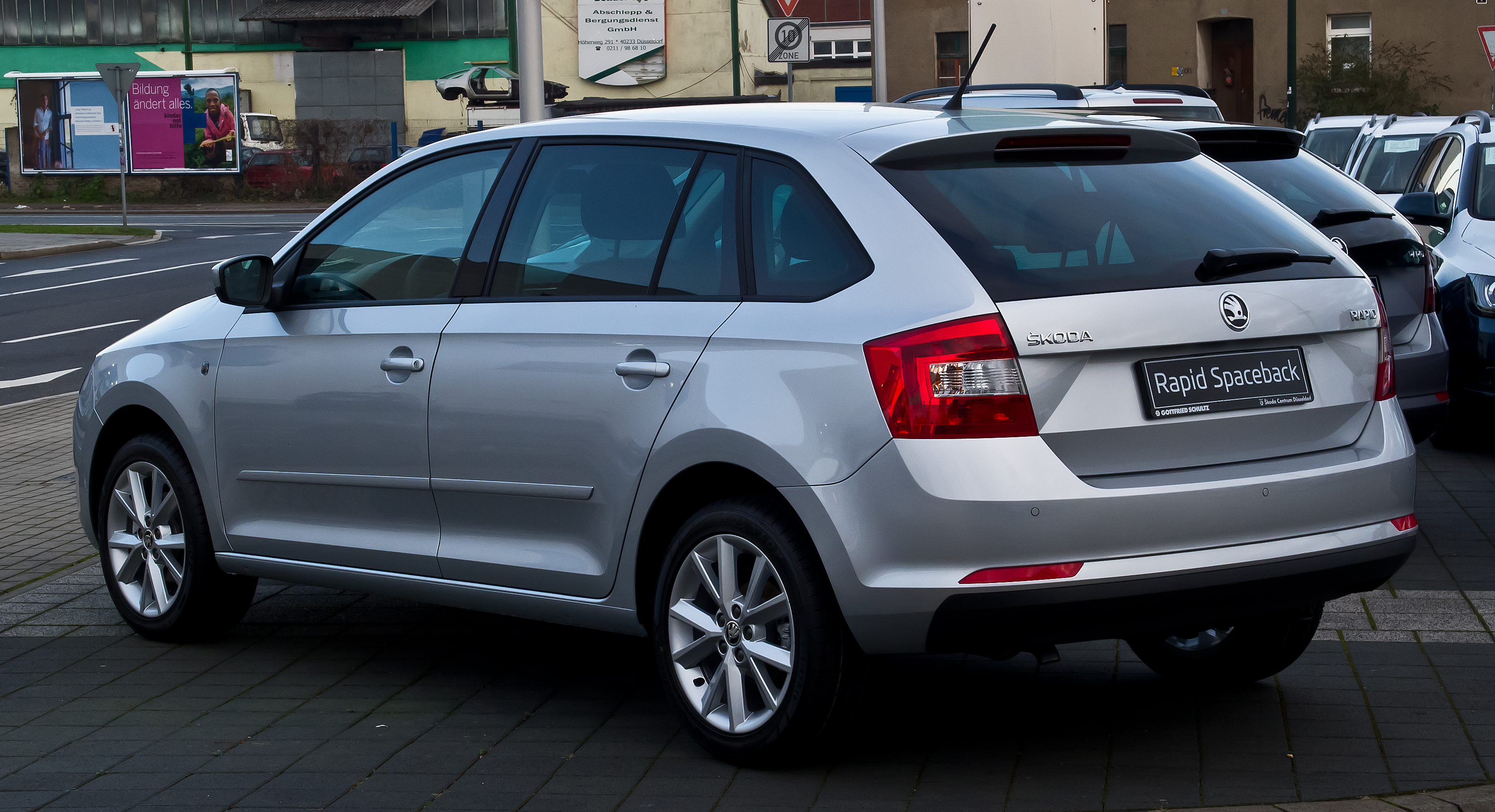 Skoda Rapid Spaceback 1.2 TSI Elegance